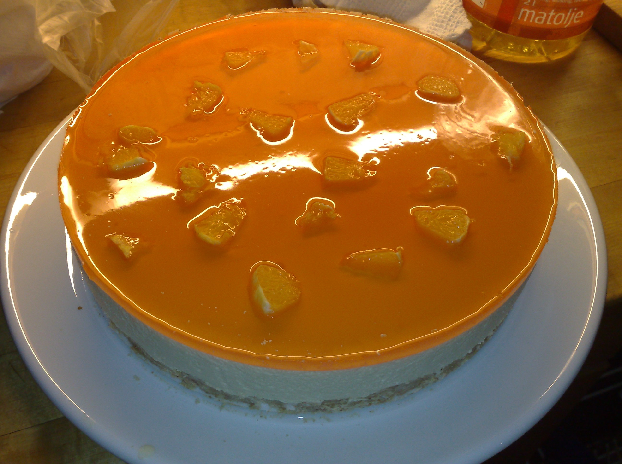 "No bake" cheesecake made with orange jelly and orange pieces.